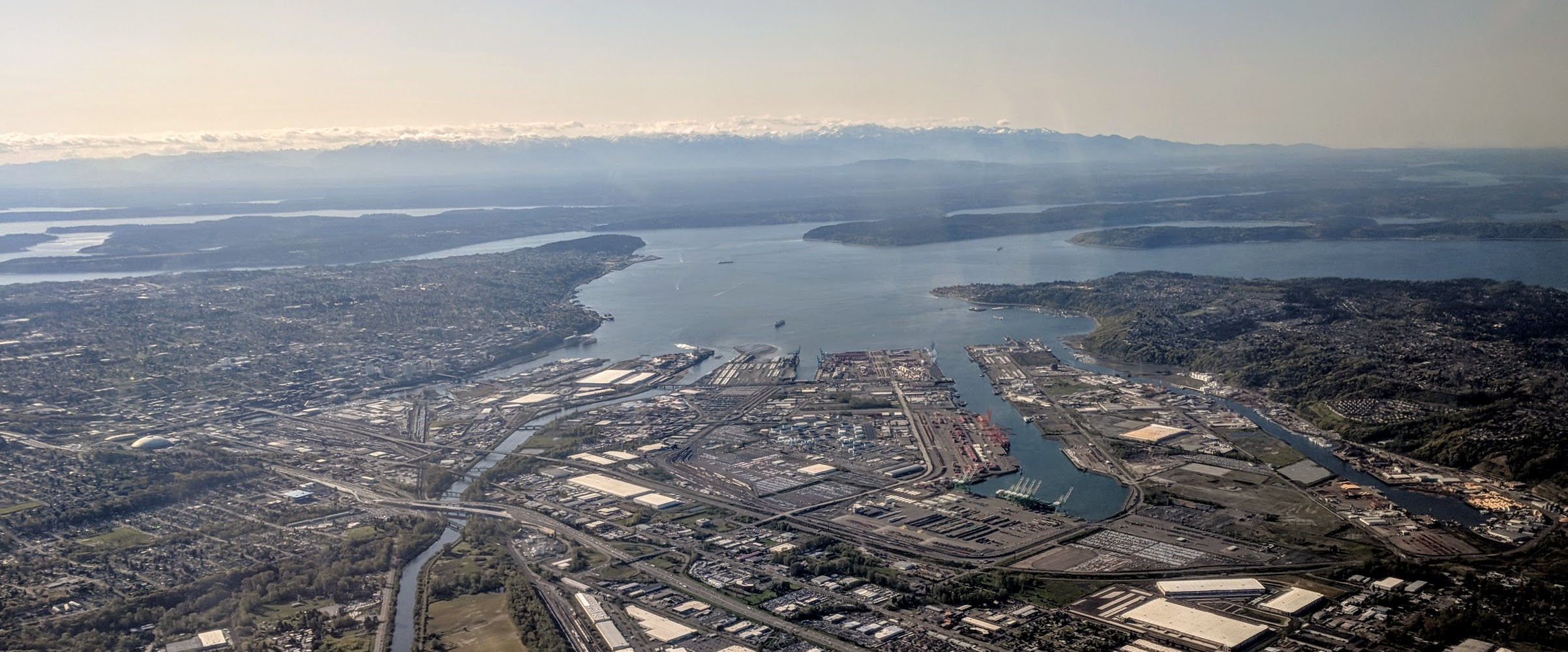 Aerial view of Tacoma, Washington, the Port of Tacoma, and Commencement Bay